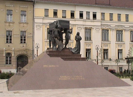 Memorial - Fallen heroes of Miskolc city. Sculptor: Péter Szanyi. Miskolc, Hungary